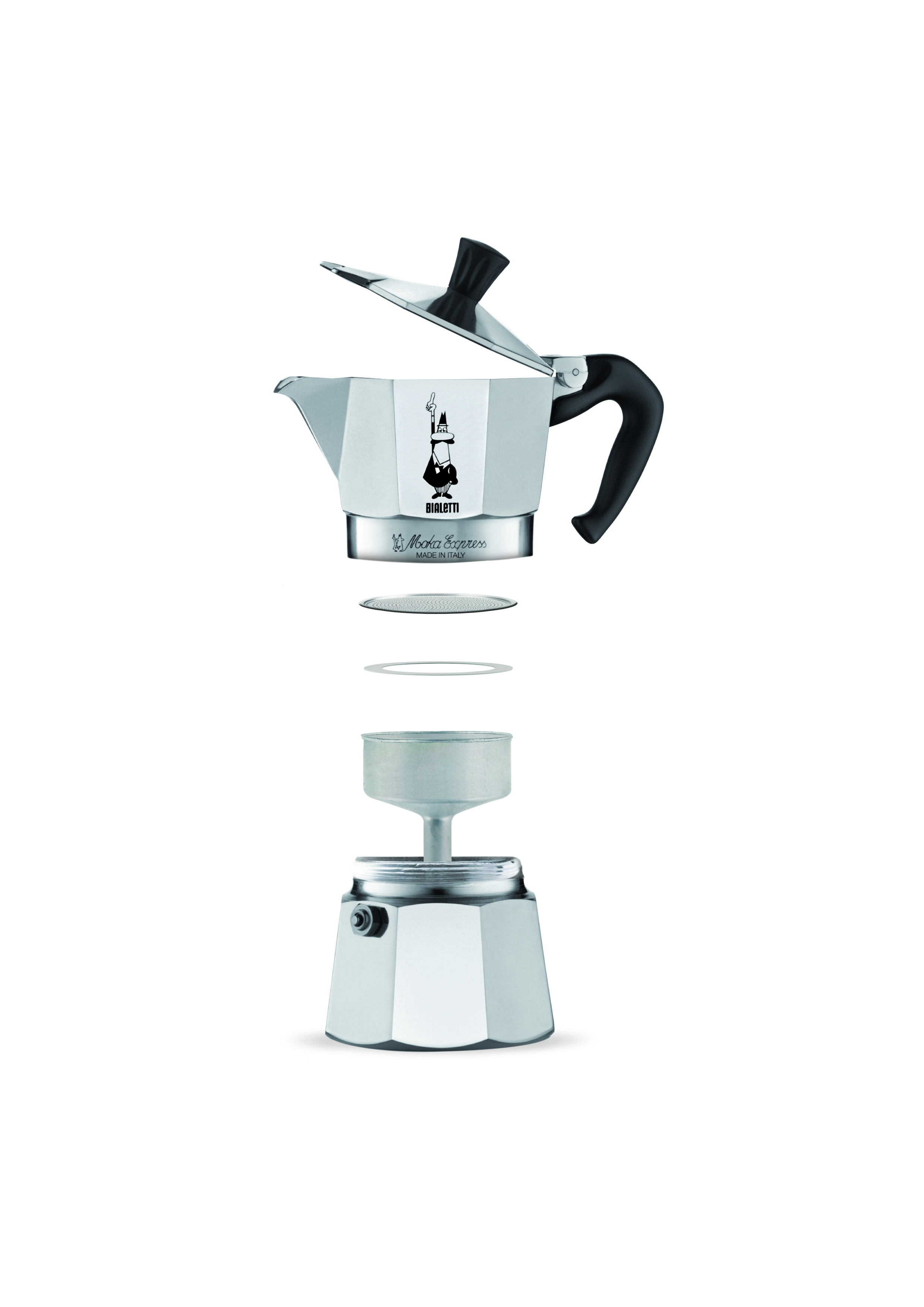 Moka components: boiler, funnel filter, gasket, filter plate, pot